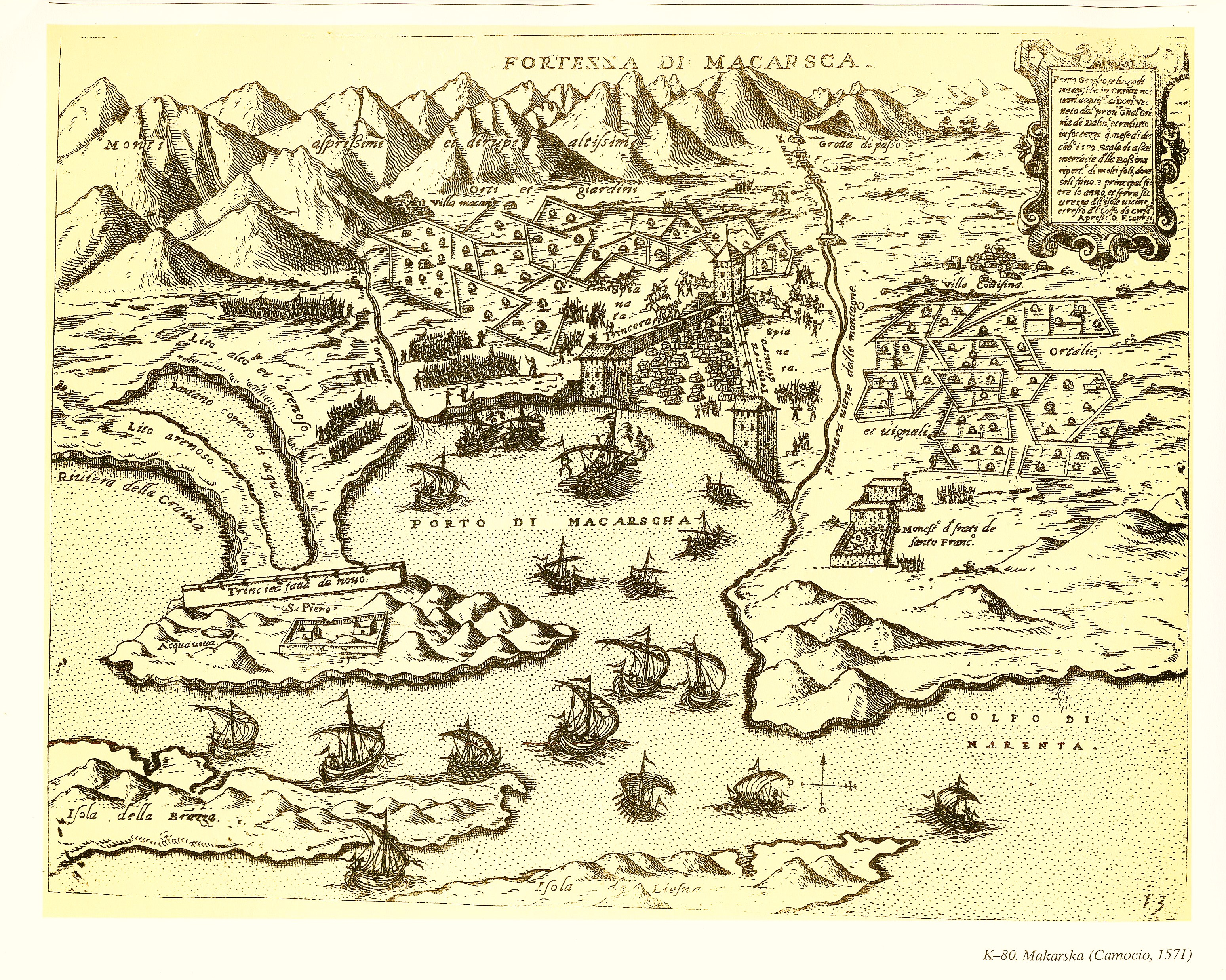 Map engraving of Makarska by cartographer Camocio, depicting the Turkish attempt to re-capture Makarska after the Battle of Lepanto in 1571 .